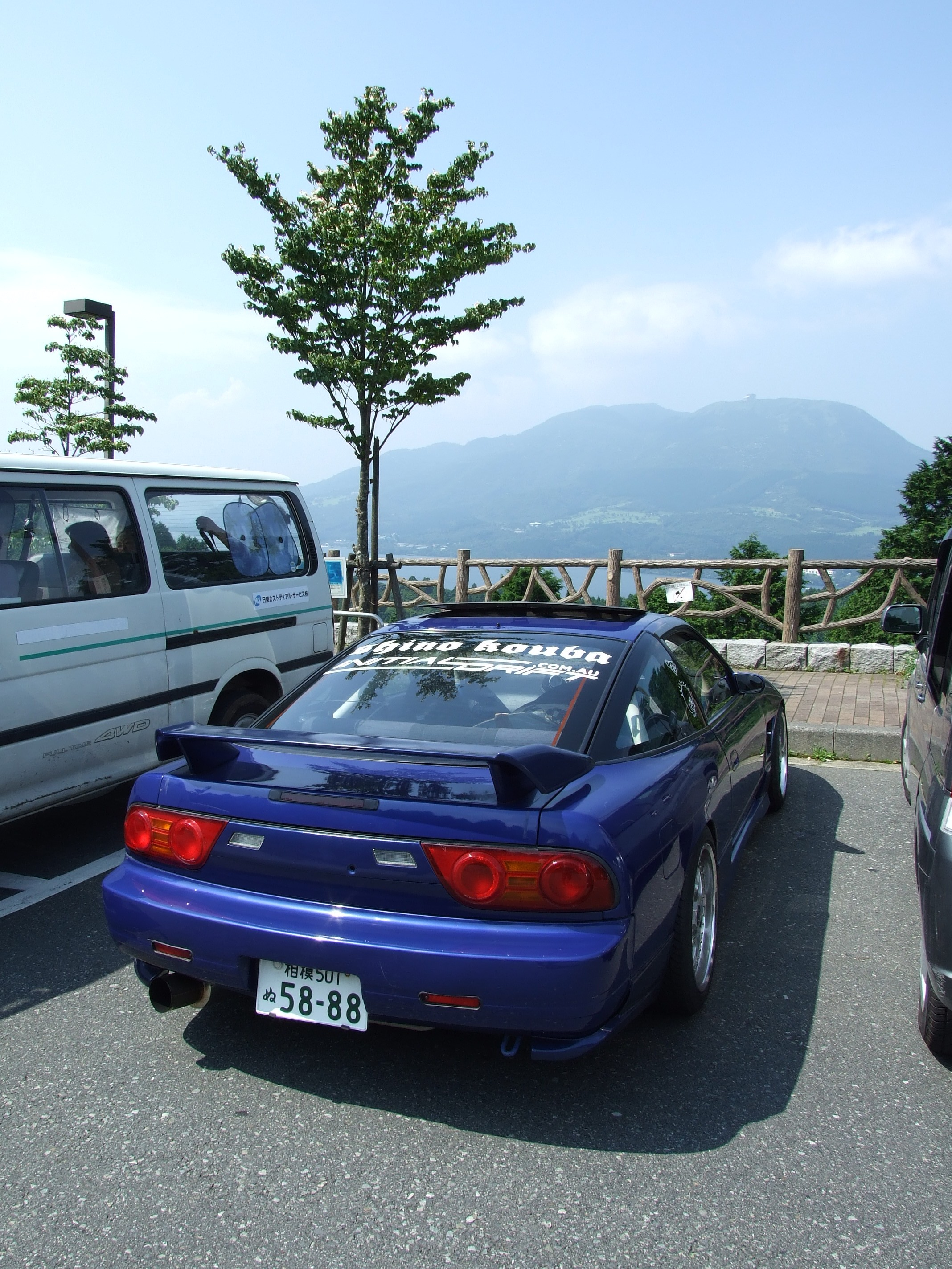 A 180SX showing the later JDM tail lights, spoiler and other styling of the 180SX models. This vehicle has modified front quarter panels the rear quarter panels have been slightly rolled. The view looks out towards Lake Ashi and Mount Hakone.